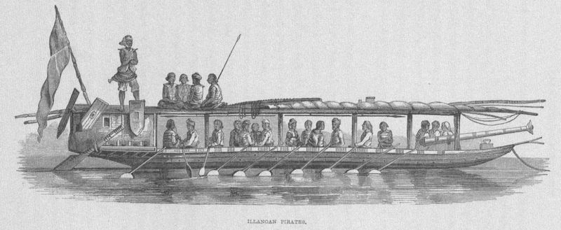 "Illanoan Pirates", circa 1800s